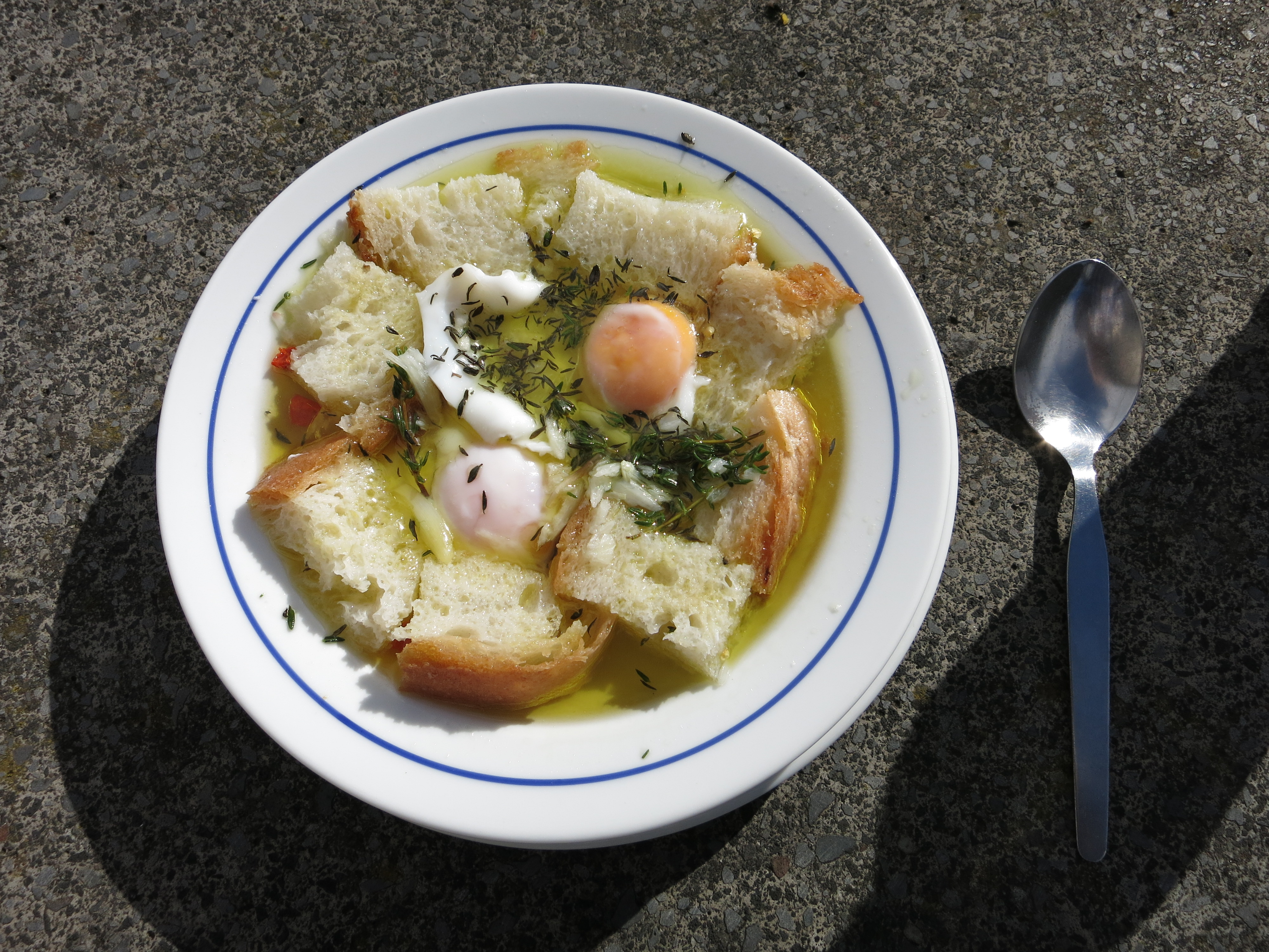 Portuguese bread soup